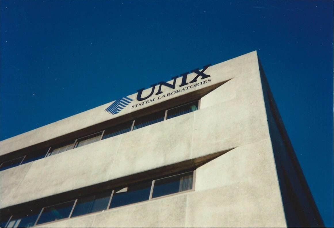 The Unix System Laboratories logo atop what had been its headquarters building in Summit, New Jersey. Although Novell (headquartered in Provo, Utah) had already bought USL by the time this photograph was taken, the sign on the building had not been changed, yet. The new signage can be seen in another photo, shot two months later.